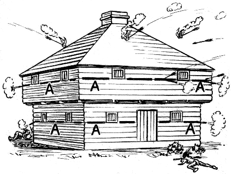 A blockhouse.